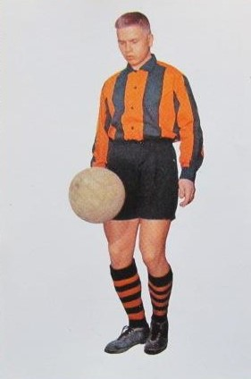 1965 Champion football card of the Reipas Lahti footballer Timo Kautonen.